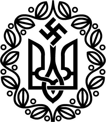 The Union of Ukrainian Fascists logo. The «Union of Ukrainian Fascists» was formed in exile in Czechoslovakia in the beginning of the 1920s. On November 12, 1925, it morphed into the «League of the Ukrainian Nationalists», which in its turn served as a foundation for the «Organization of Ukrainian Nationalists» (1929) under Eugene Konovalets.